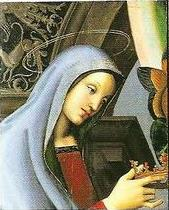 Altarpiece of San Nicola da Tolentino